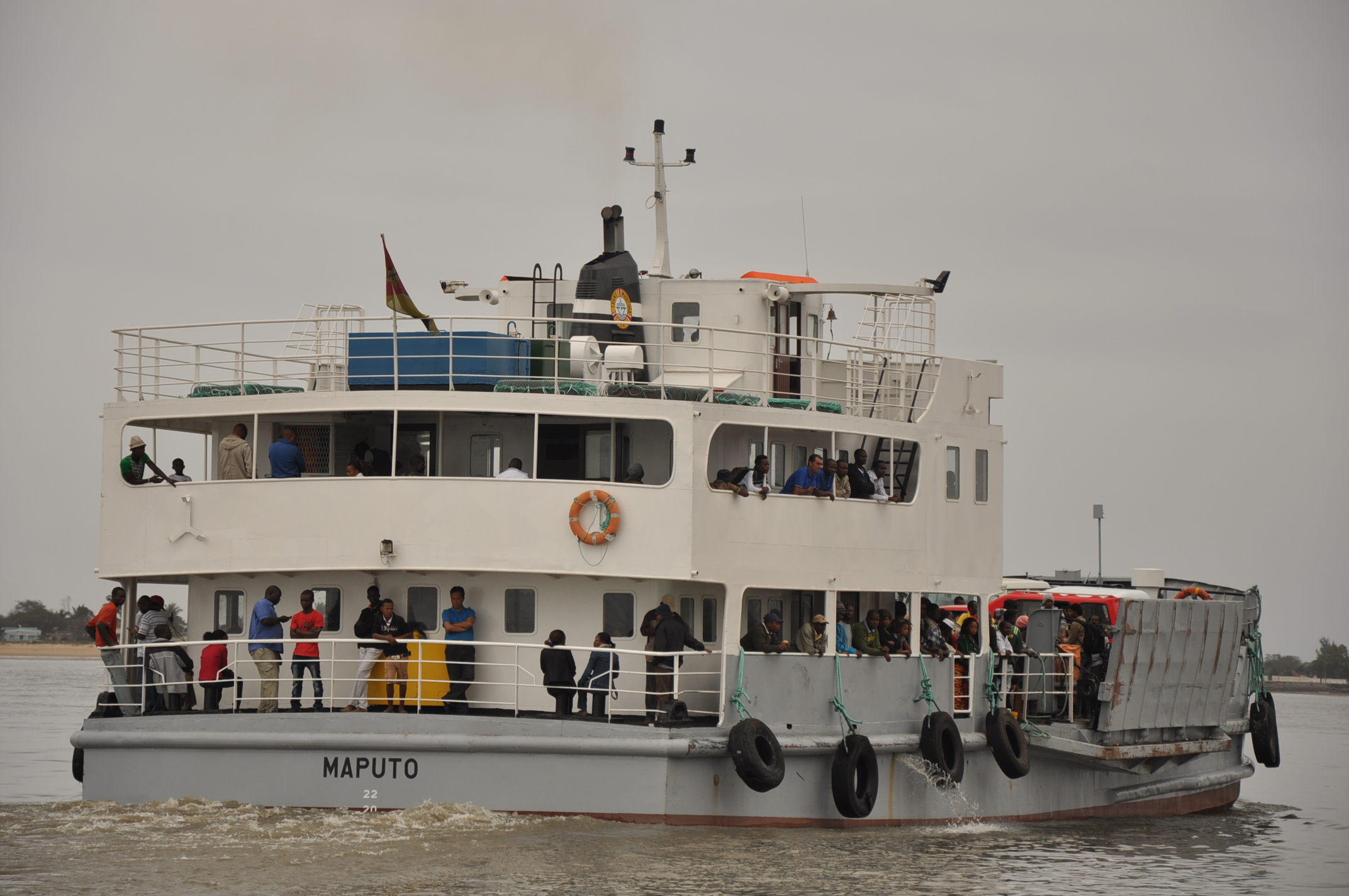 Ferry between Maputo and Katembe, Mozambique